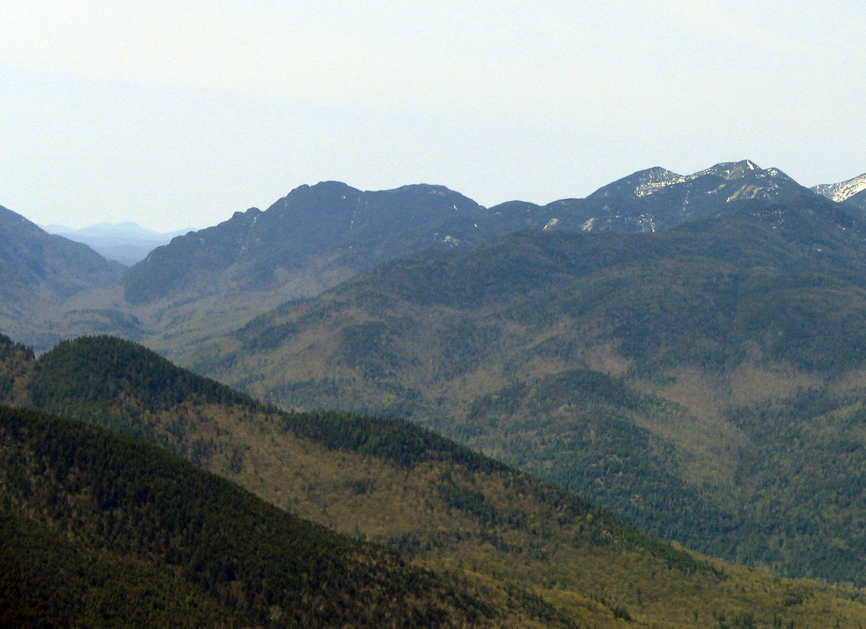 Ausable Valley - Sawteeth - Pyramid - Gothics, seen from Hurricane Mountain